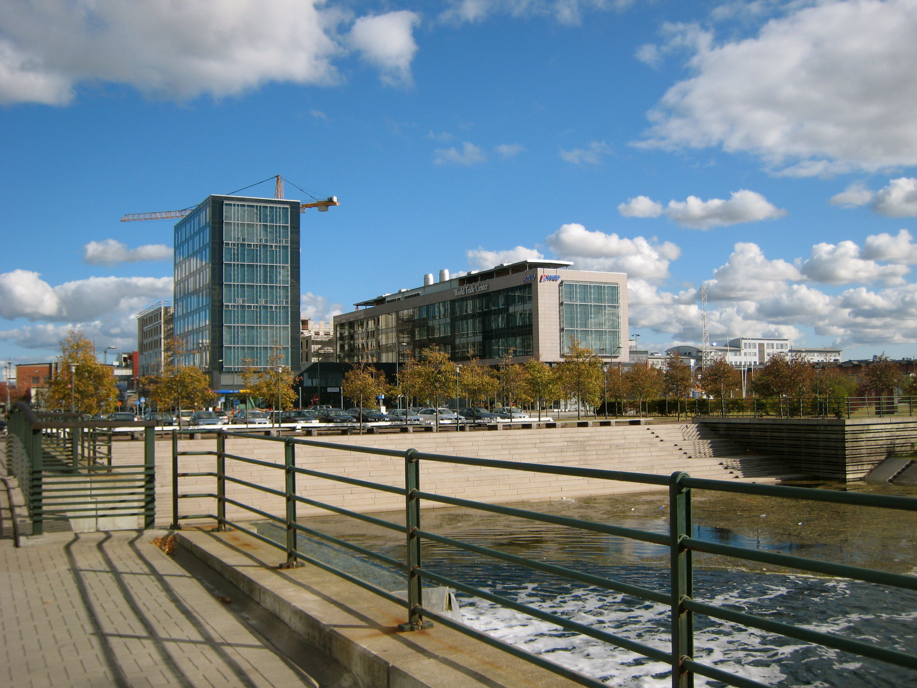 World Trade Center in Malmö, Sweden